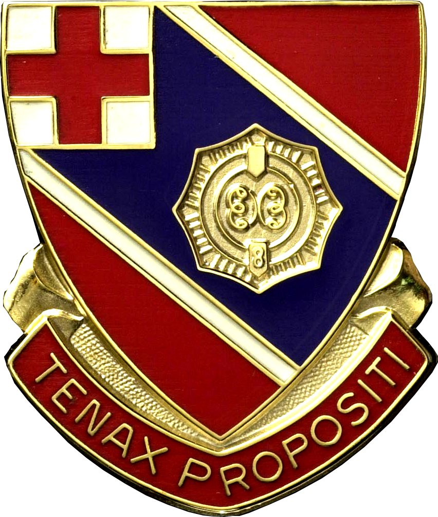 Distinctive Unit Insignia of the 103rd Engineer Battalion (ARNG MA)